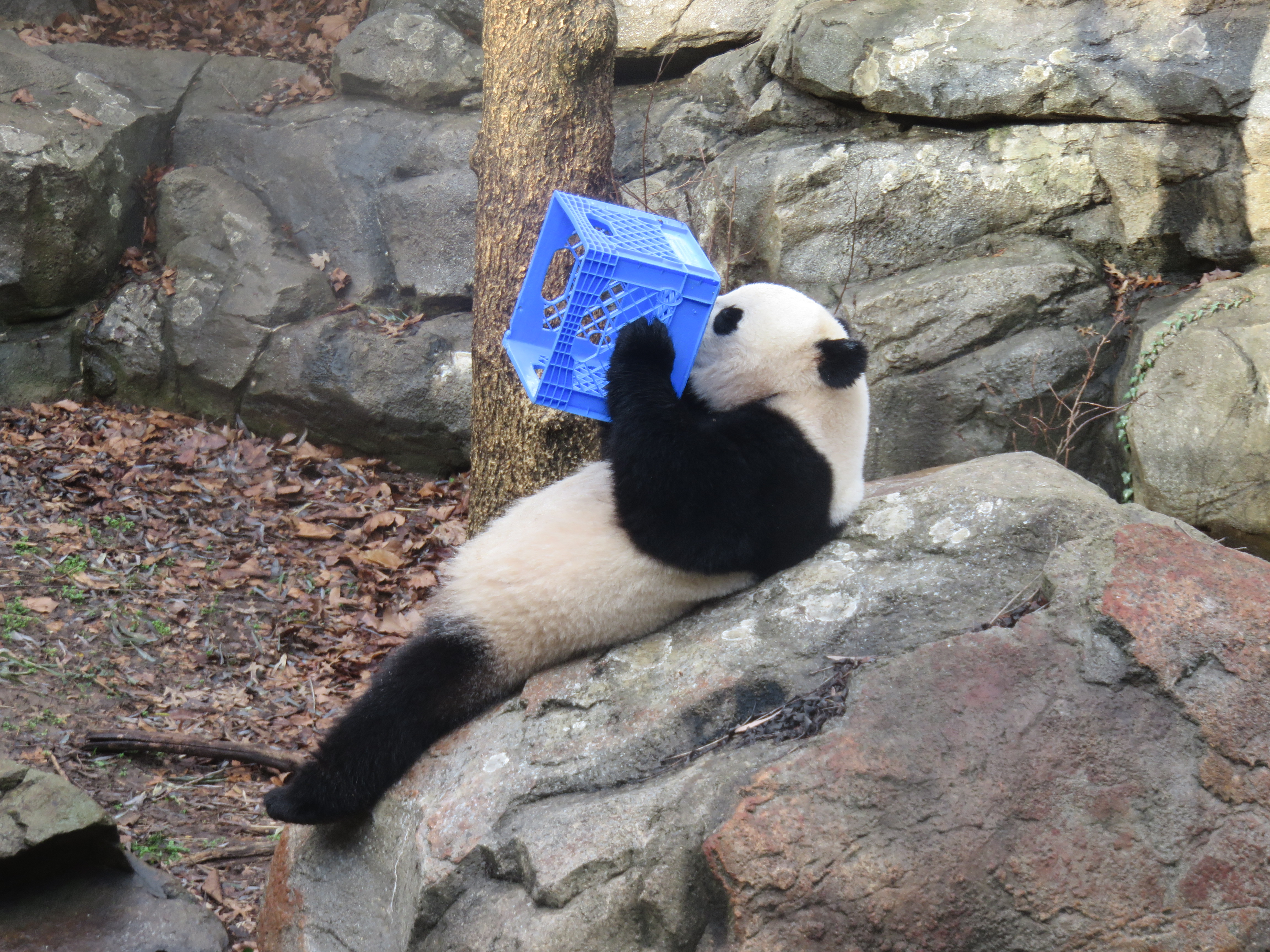 Bao Bao